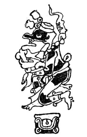 Described as Ek Ahau, the Black Captain, war deity by Morley, but identified as Ek Chuah, according to other sources